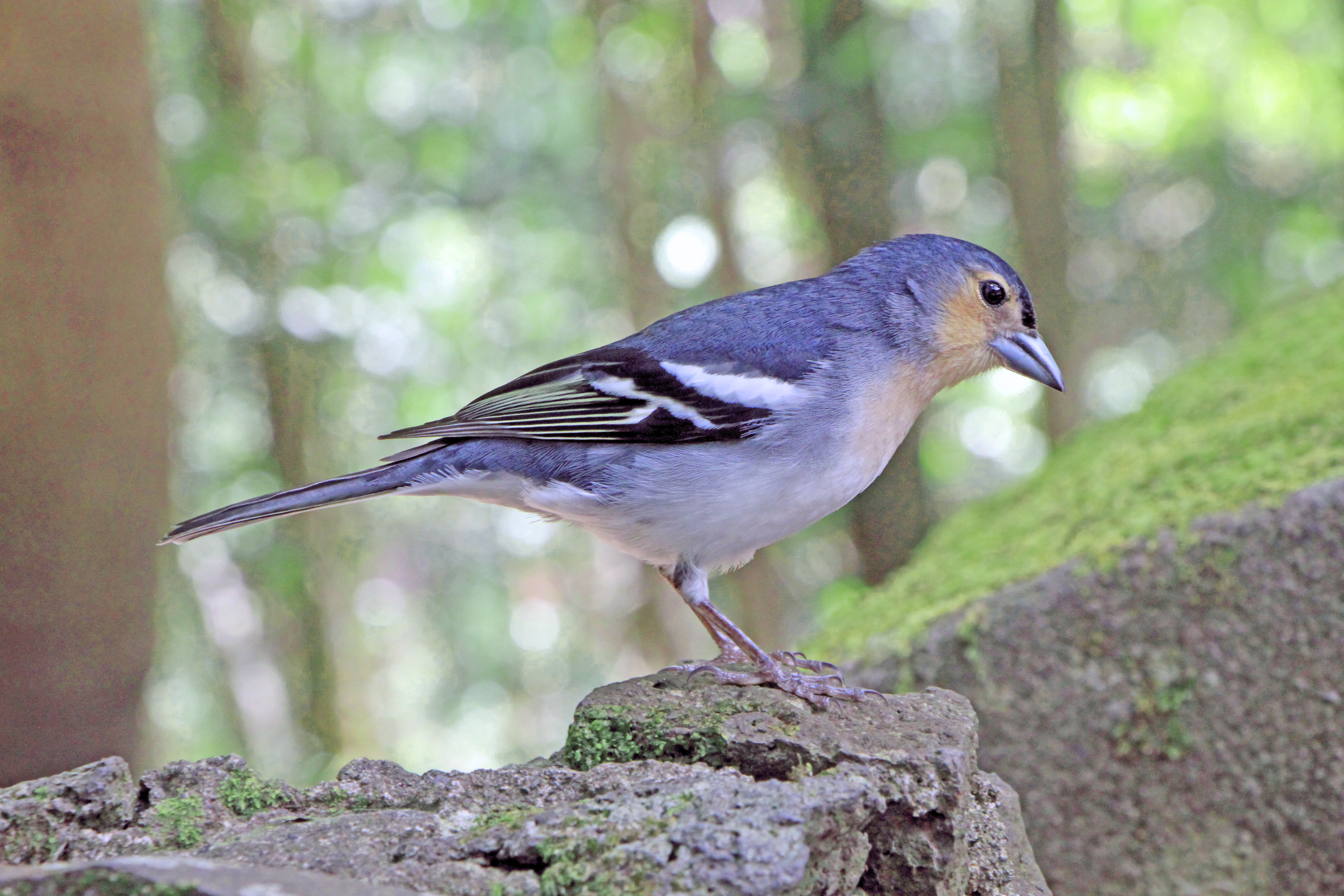 La Palma Chaffinch, male; Los Tilos, La Palma, Canary Islands, Spain.